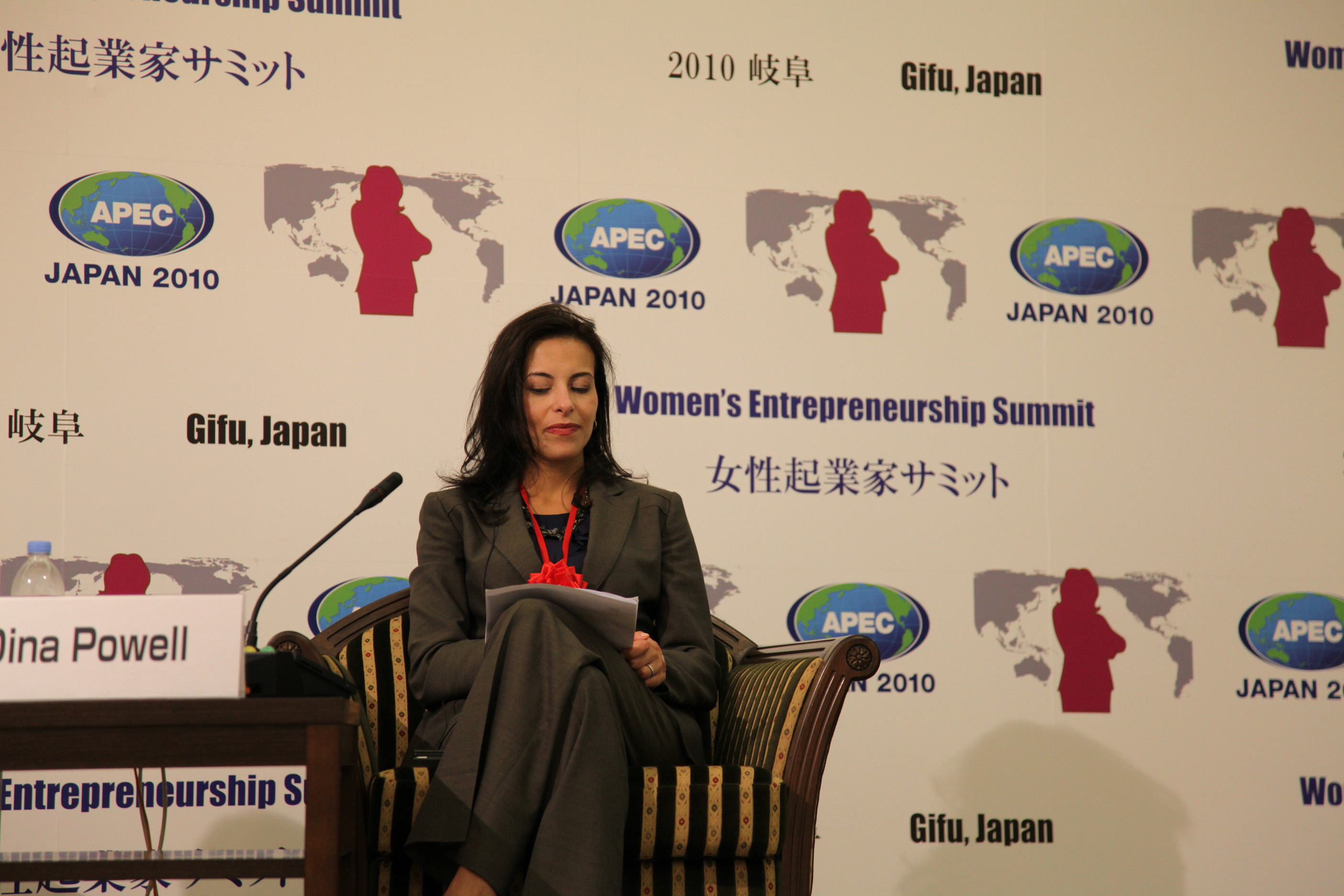 GIFU, Japan (October 1, 2010) A panelist at the APEC Women's Entrepreneurship Summit